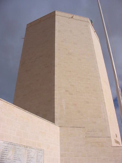 The italian sacrary at El Alamein, Egypt, taken from the direction opposing to south-west.